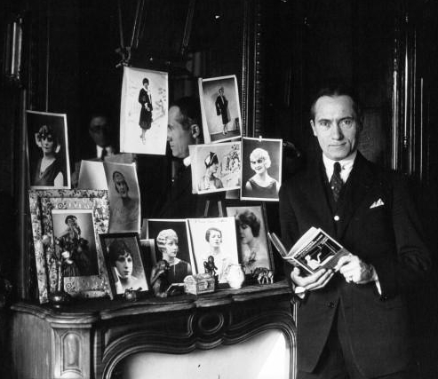 French writer Maurice Dekobra (1885-1973).